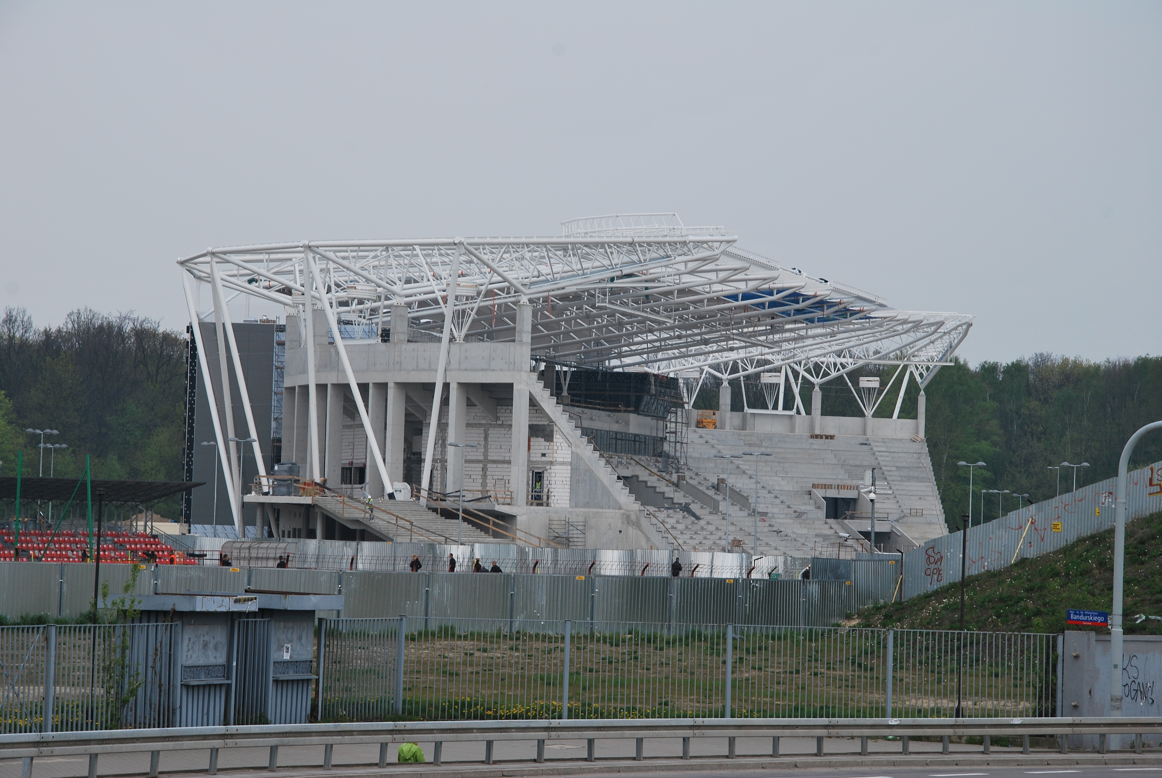 ŁKS new stadium construction